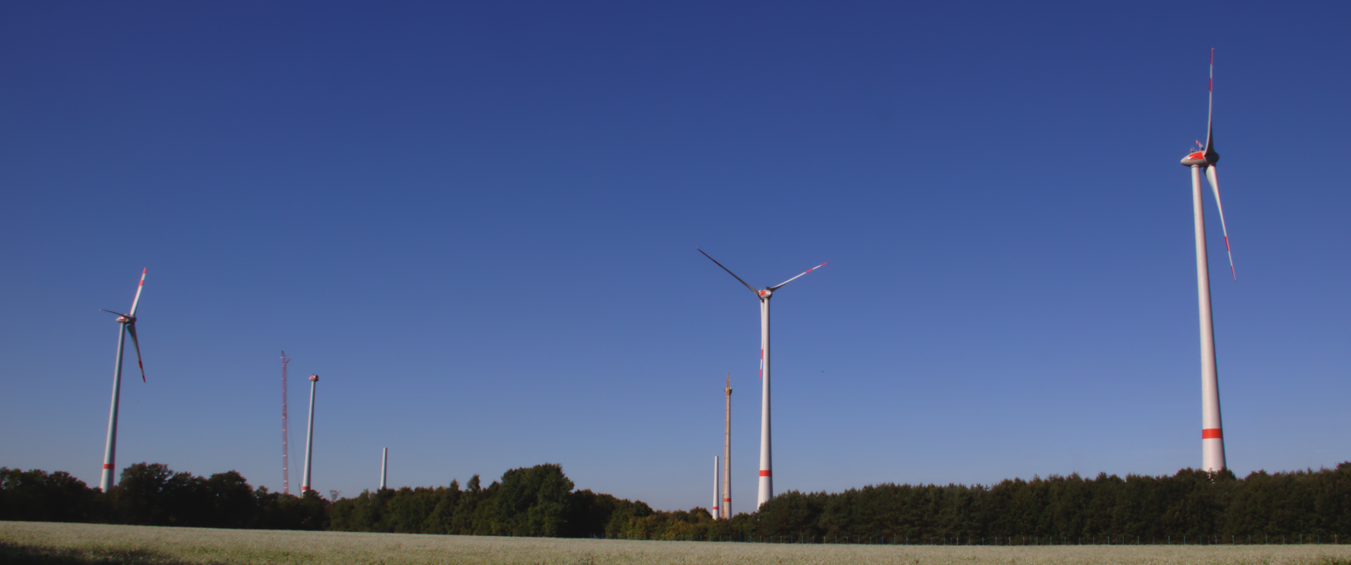 Wind farm in Saerbeck with 7 wind turbines of the type E-101.